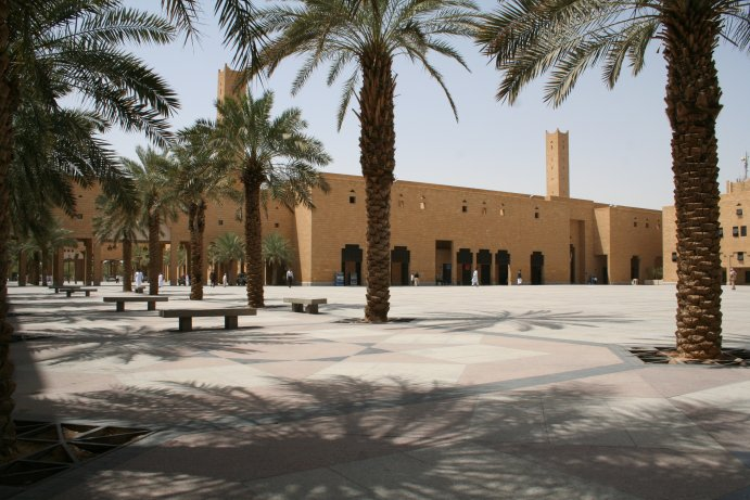 Dira Square (also known as Chop Chop Square by expats), Riyadh, Saudi Arabia. Taken by BroadArrow in 2007.